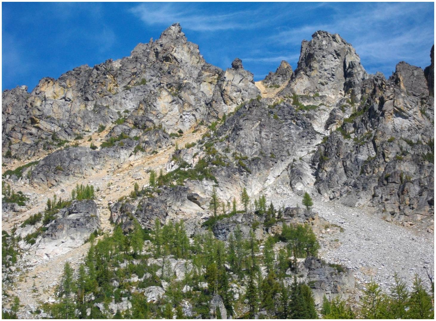 Emerald Peak summit detail, by Patrick Herman 2012